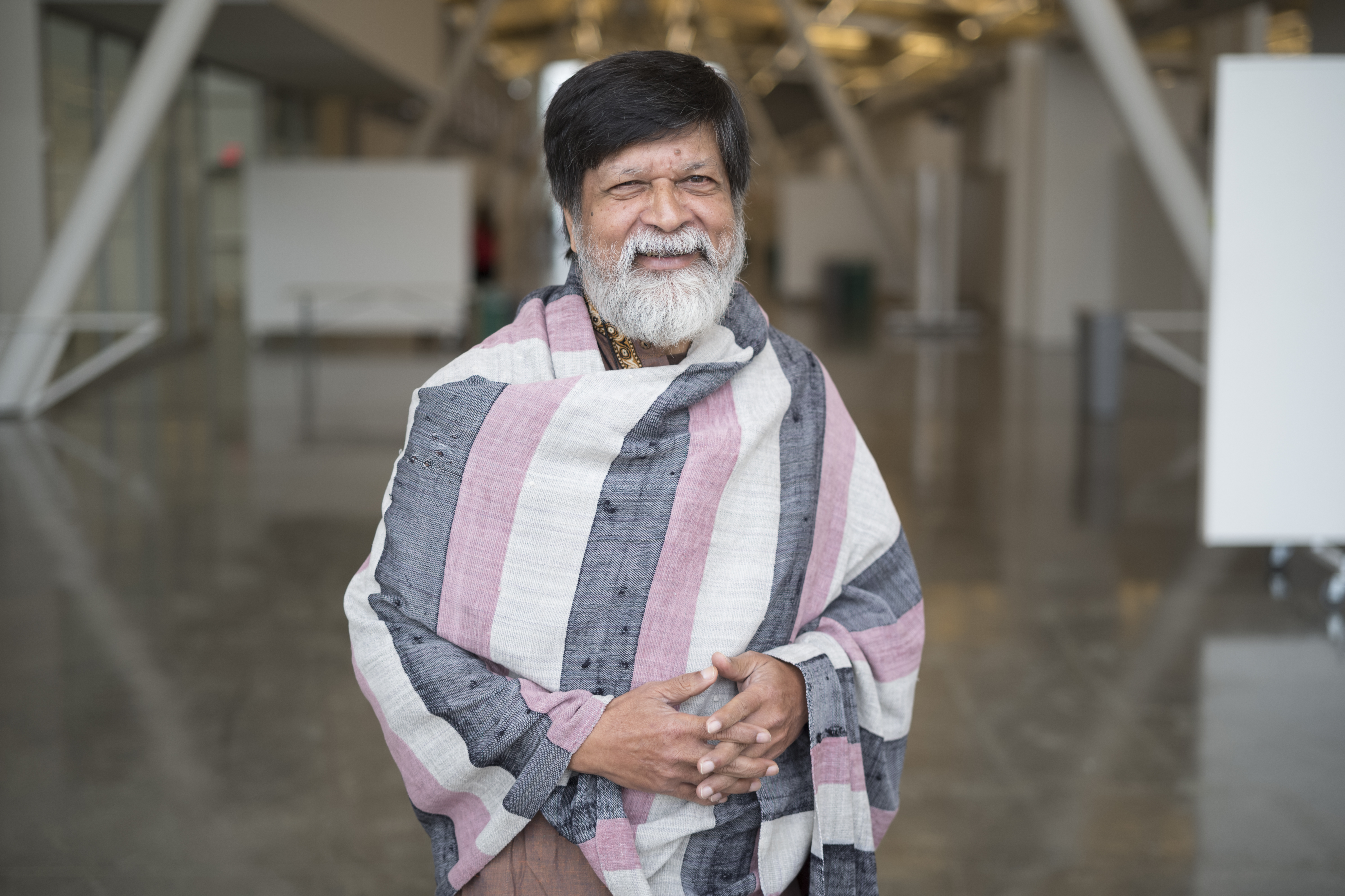 Catchlight